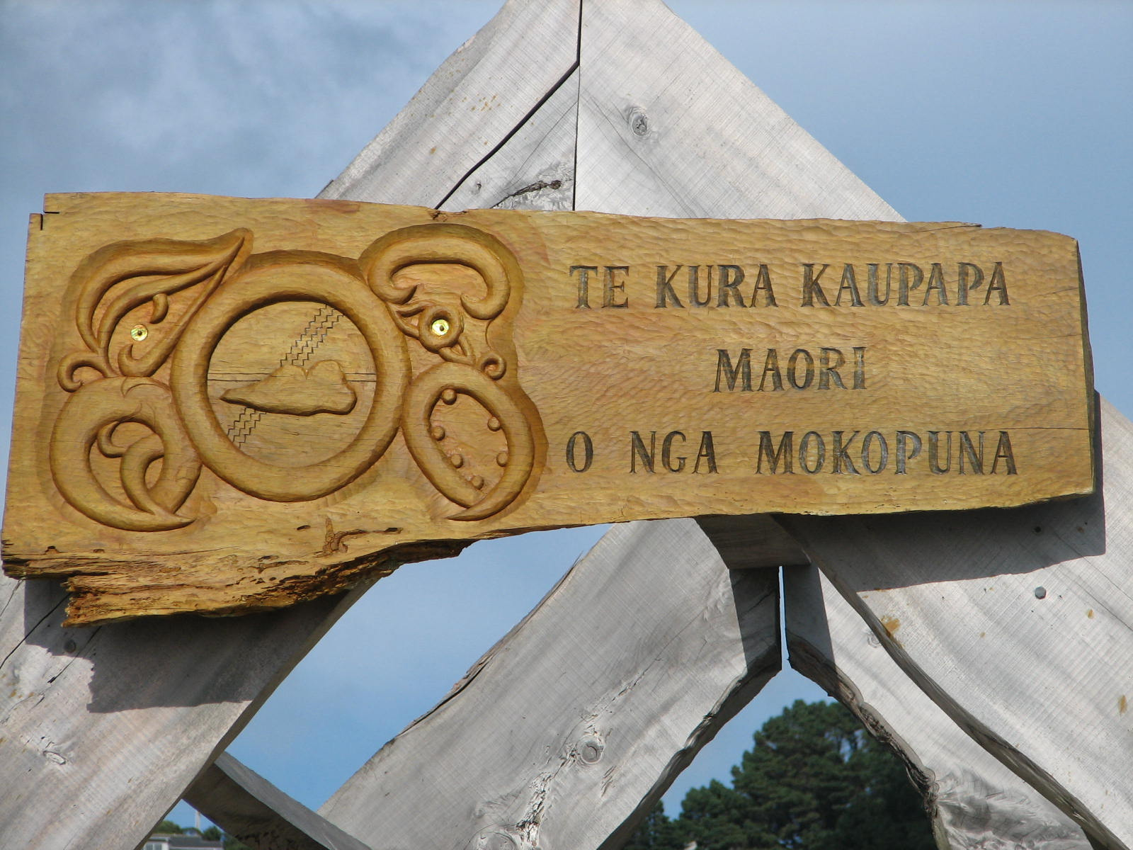 Full Immersion School in Seatoun. All classes are held in the Maori language.